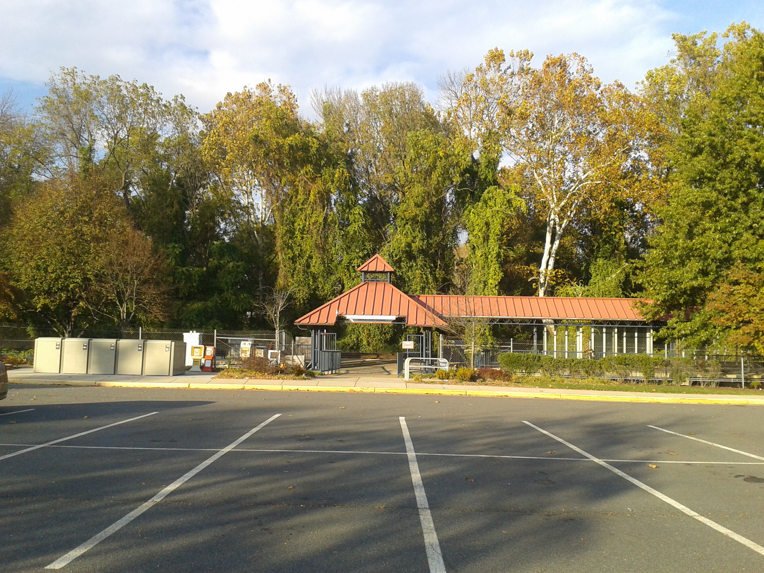 North Springfield, Fairfax County, Virginia Taken by me in October, 2016